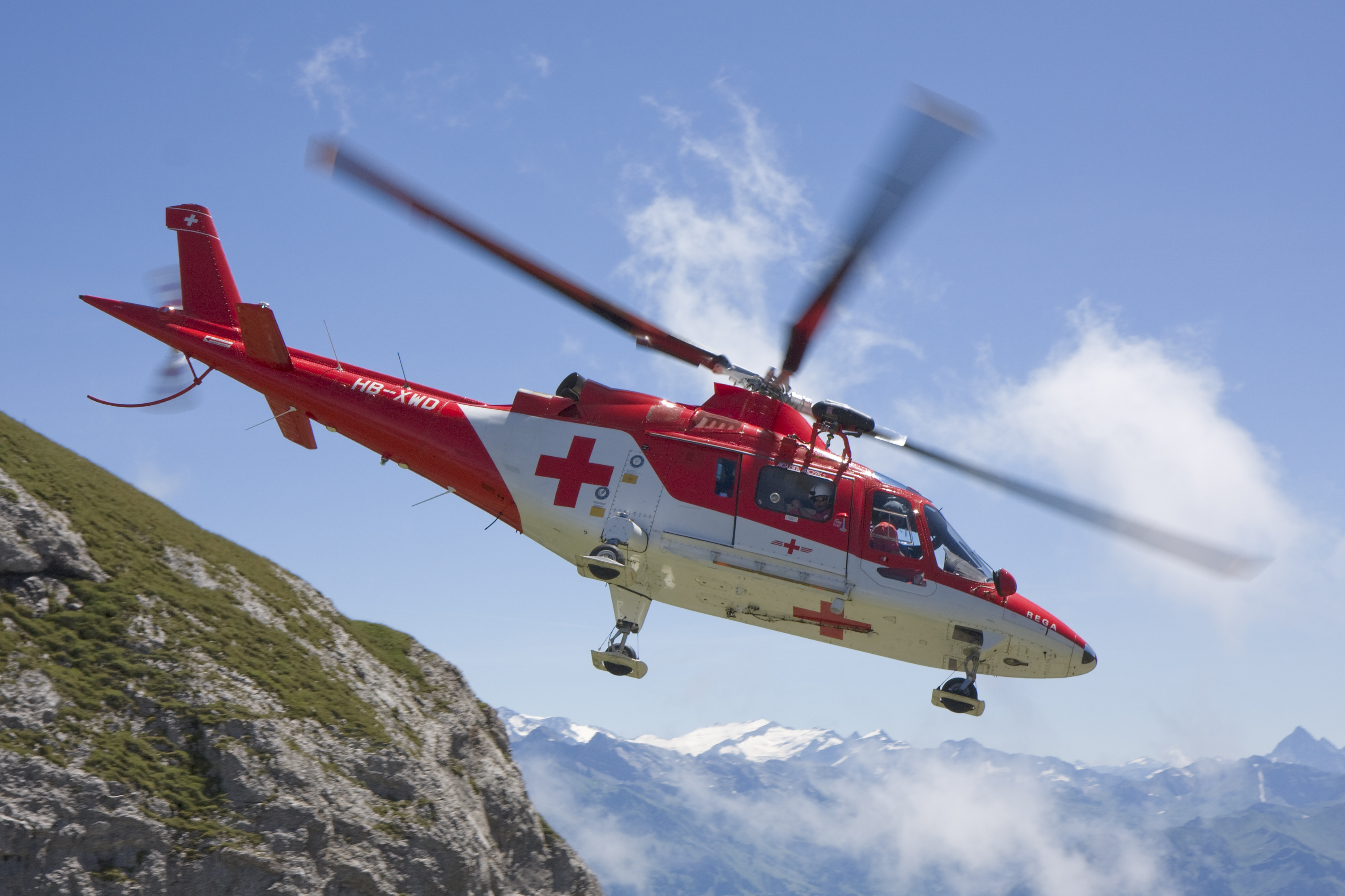 A rescue helicopter type Agusta A109K2 leaves Mount Pilatus after recovering a patient.